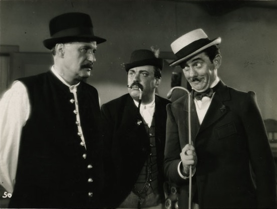 Scene from the Hungarian movie titled Piros bugyelláris (released in 1938)